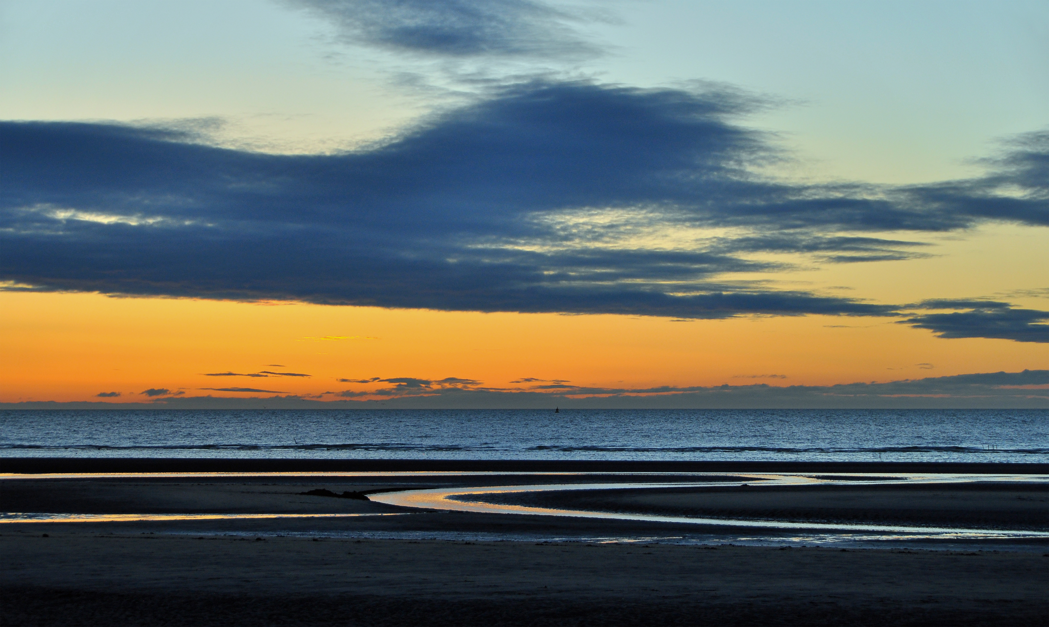 Koksijde (Belgium): evening twilight on the North Sea